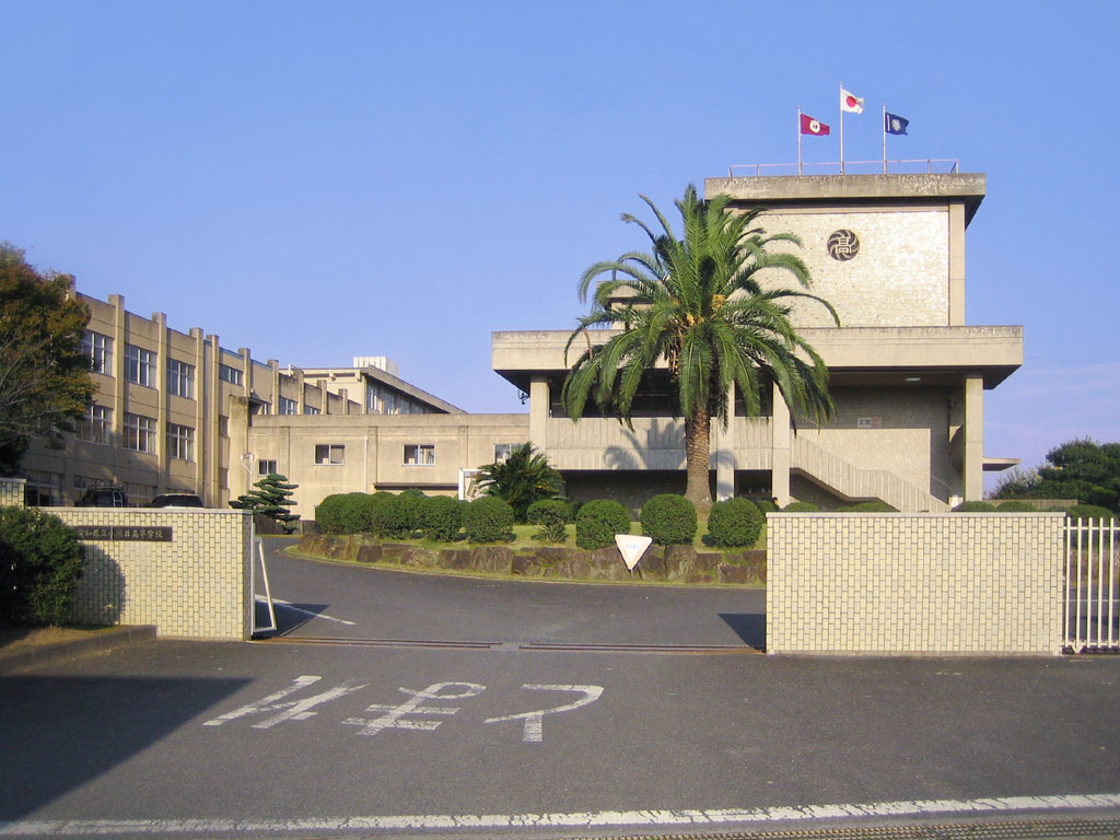 愛知県立小坂井高等学校。愛知県小坂井町The gate of Kozakai High School (小坂井高等学校), Aichi, Japan